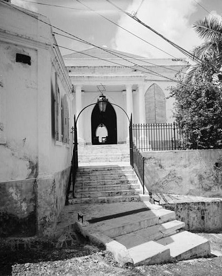 Synagogue of Beracha Veshalom Vegemiluth Hasidim, Krystalgade 16A & B, Charlotte Amalie, St. Thomas County, Virgin Islands. Image (1958): Historic American Buildings Survey of the United States Virgin Islands, cropped. This file comes from the Historic American Buildings Survey (HABS), Historic American Engineering Record (HAER) or Historic American Landscapes Survey (HALS). These are programs of the National Park Service established for the purpose of documenting historic places. Records consist of measured drawings, archival photographs, and written reports. When reusing please credit: Library of Congress, Prints & Photographs Division, VI,3-CHAM,3-1 This tag does not indicate the copyright status of the attached work. A normal copyright tag is still required. See Commons:Licensing. This work is in the public domain in the United States because it is a work prepared by an officer or employee of the United States Government as part of that person’s official duties under the terms of Title 17, Chapter 1, Section 105 of the US Code. Note: This only applies to original works of the Federal Government and not to the work of any individual U.S. state, territory, commonwealth, county, municipality, or any other subdivision. This template also does not apply to postage stamp designs published by the United States Postal Service since 1978. (See § 313.6(C)(1) of Compendium of U.S. Copyright Office Practices). It also does not apply to certain US coins; see The US Mint Terms of Use. This file has been identified as being free of known restrictions under copyright law, including all related and neighboring rights. Object location18° 20′ 34″ N, 64° 55′ 58″ W